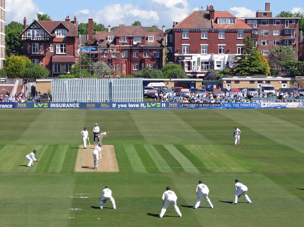 Sussex v Nottinghamshire at Hove, near to Brighton and Hove, Great Britain.